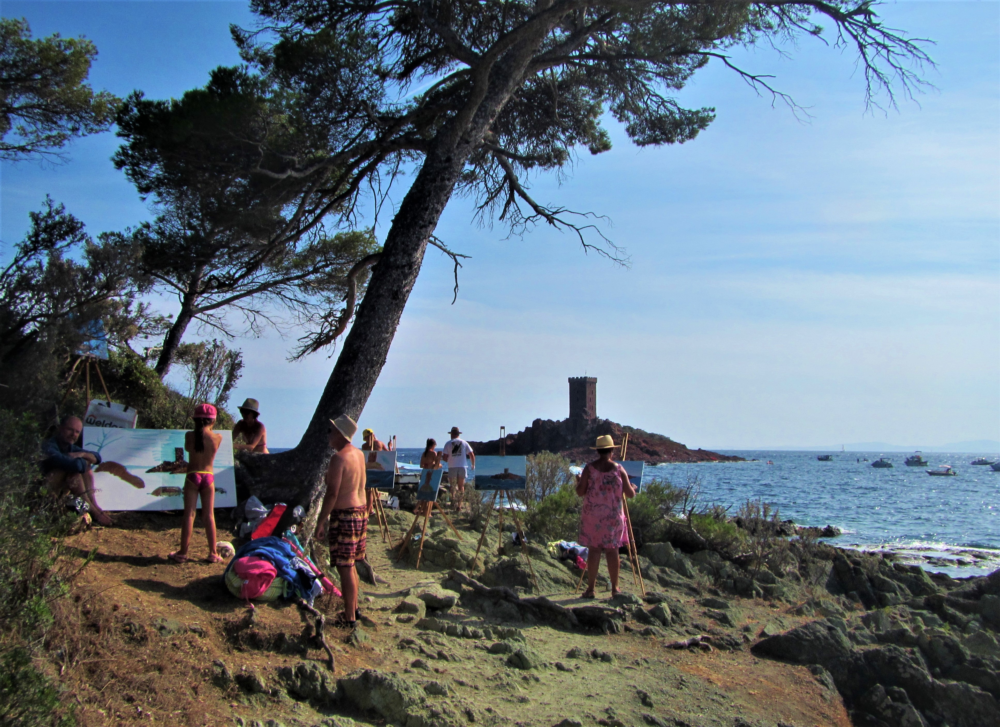 Amateur painters at Poussaï facing the Île d'Or.